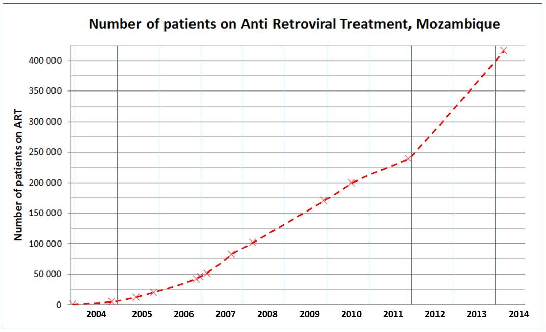 Number of patients on Anti Retroviral Treatment in Mozambique 2003-2014